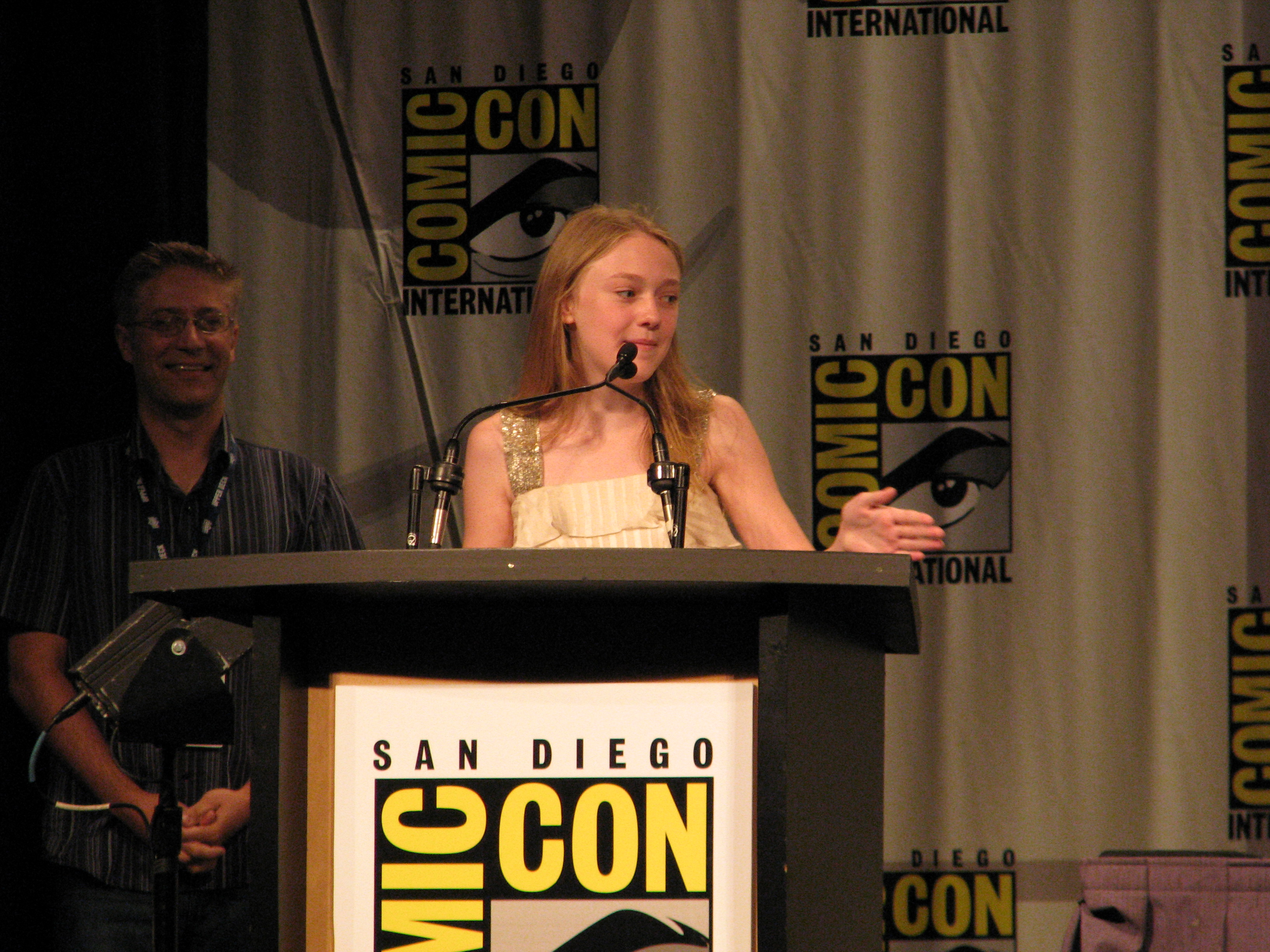 Dakota Fanning at the 2008 Comic Con